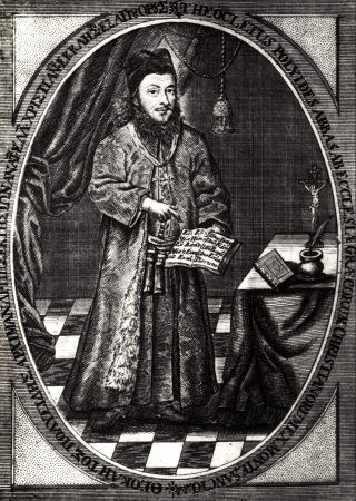 Theocletus Polyides